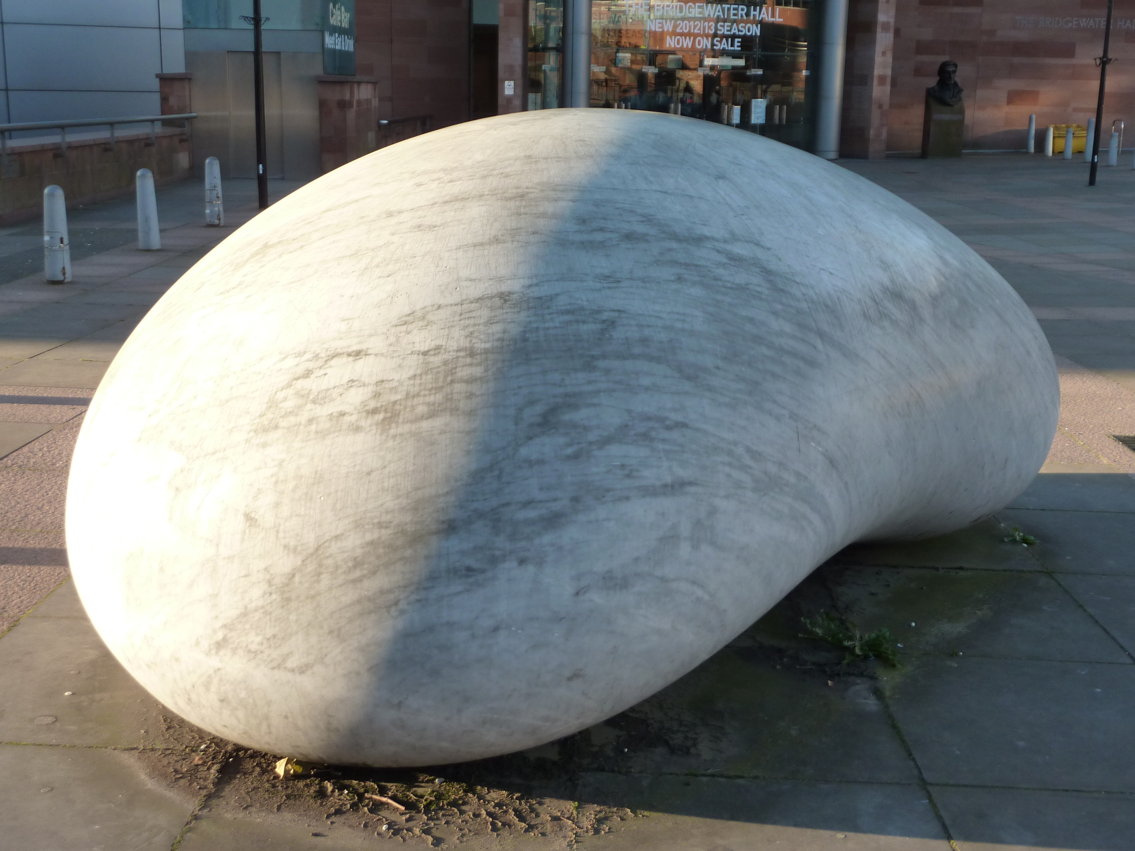 The Ishinki Touchstone in Barbirolli Square, Manchester